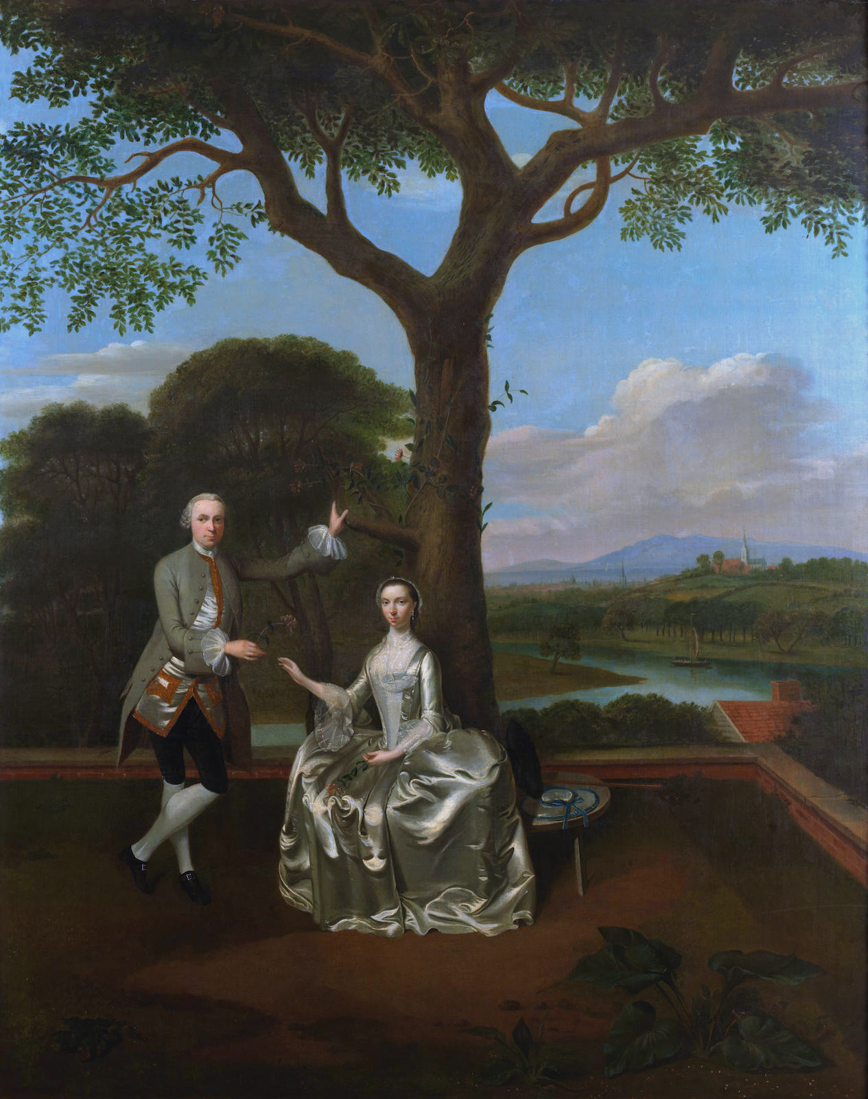 David Gavin (1720-1783) and his first wife, Christine oil on canvas 128.5 x 102.8cm